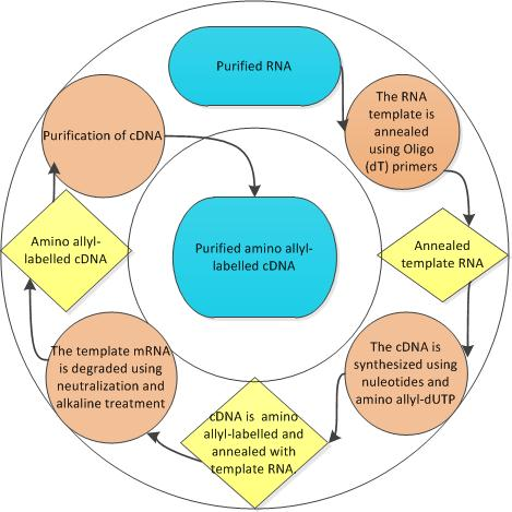 This diagram shows the process used to label a cDNA with amino-allyl nucleotide. A purified RNA is a required starting material which undergoes annealing, cDNA synthesis and purification to achieve the purified amino-allyl labeled nucleotide